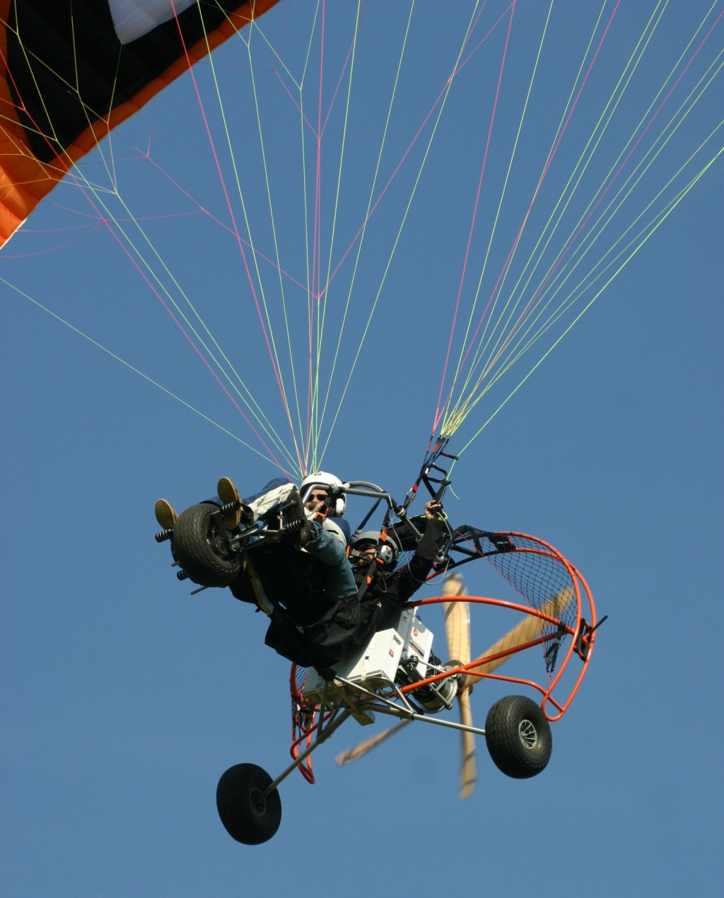 E-FENIX : first electric 2-seaters paratrike in the world. Engine and batteries : Electravia. Owner : Michaël MORIN, Re Island, France.